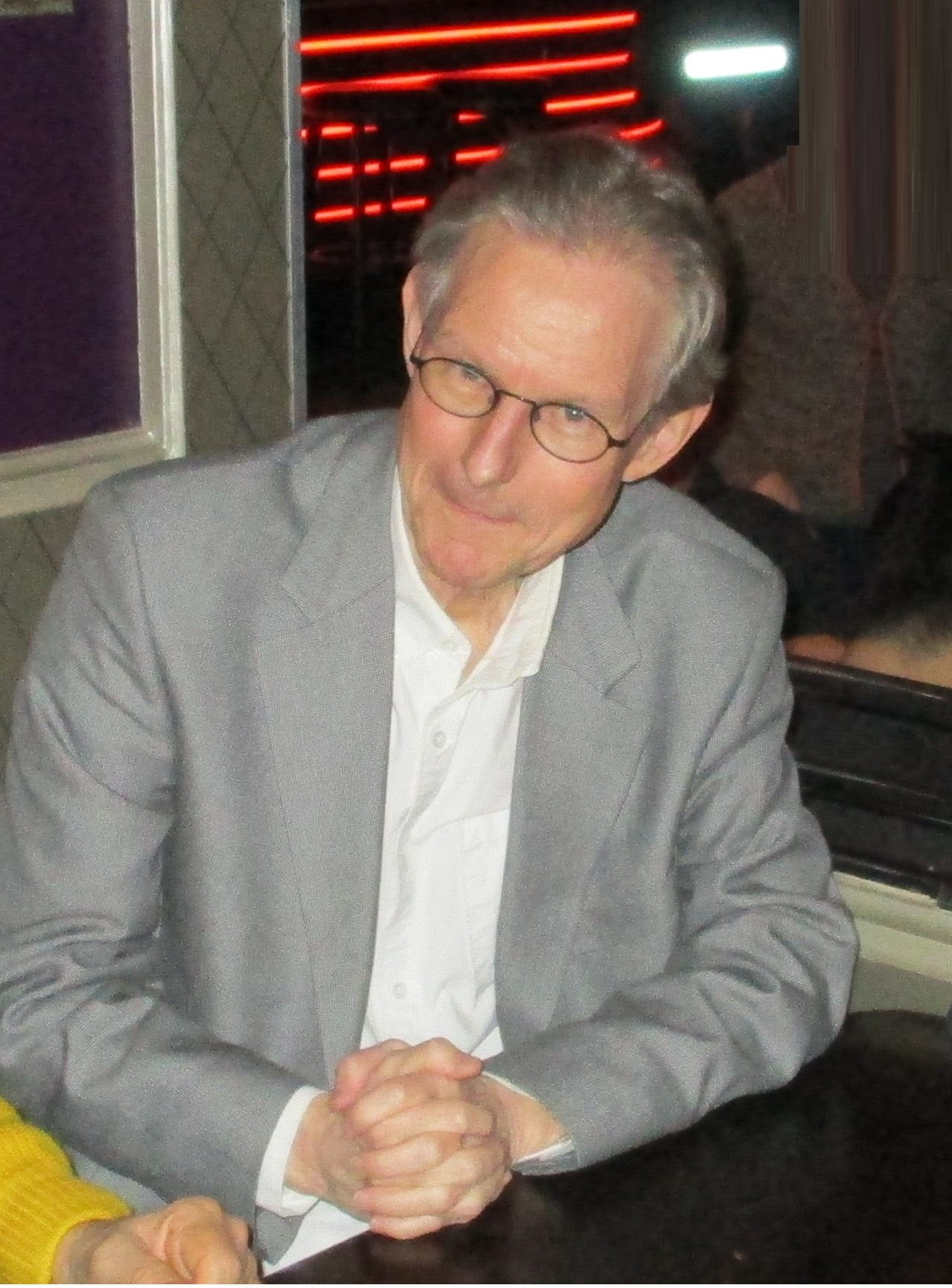 Dr. Ulf SundbergPlace: Hard Rock Café, Stockholm,, Sweden